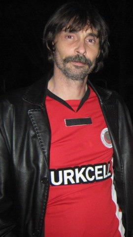 Erdal Beşikçioğlu, is a Turkish actor